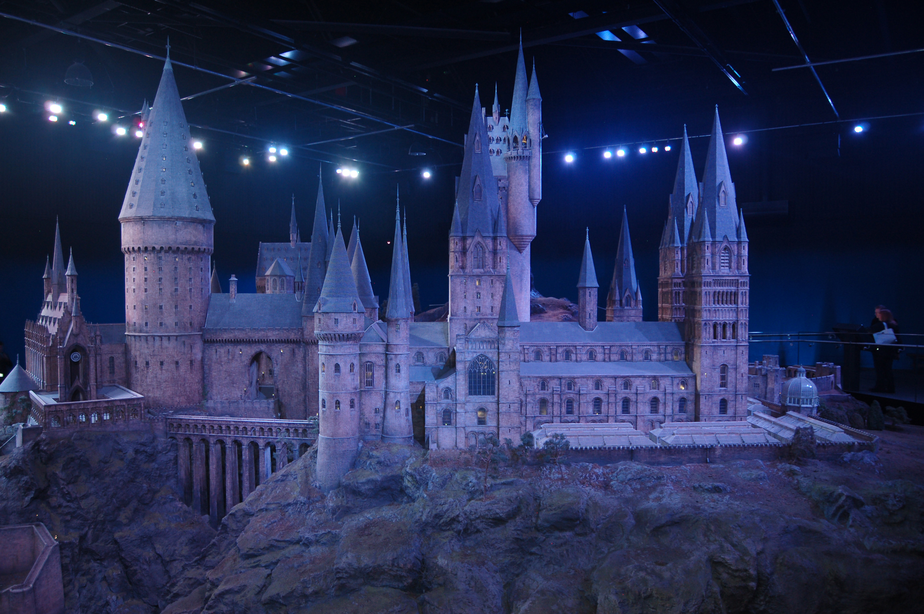 Hogwarts Castle